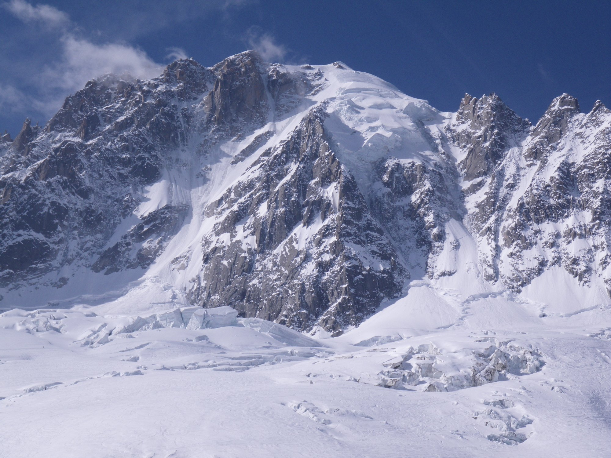 Aiguille Verte - North face